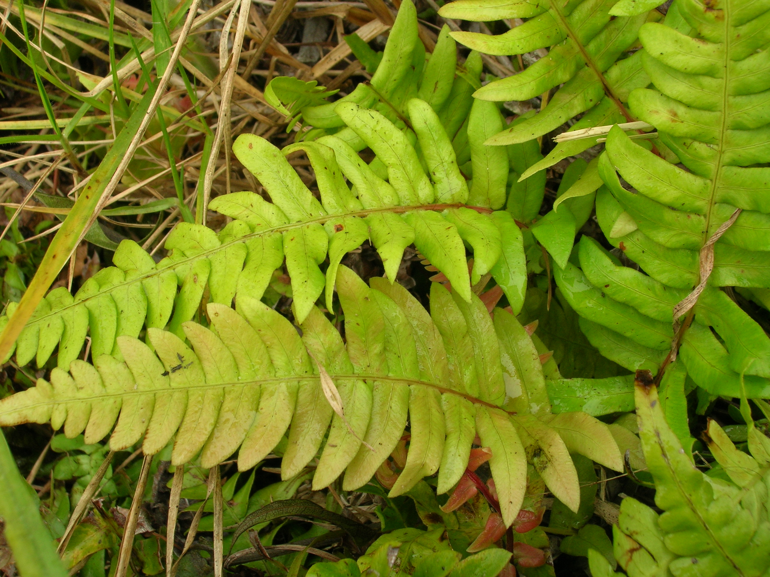 Blechnum appendiculatum (habit). Location: Maui, Haleakala Ranch